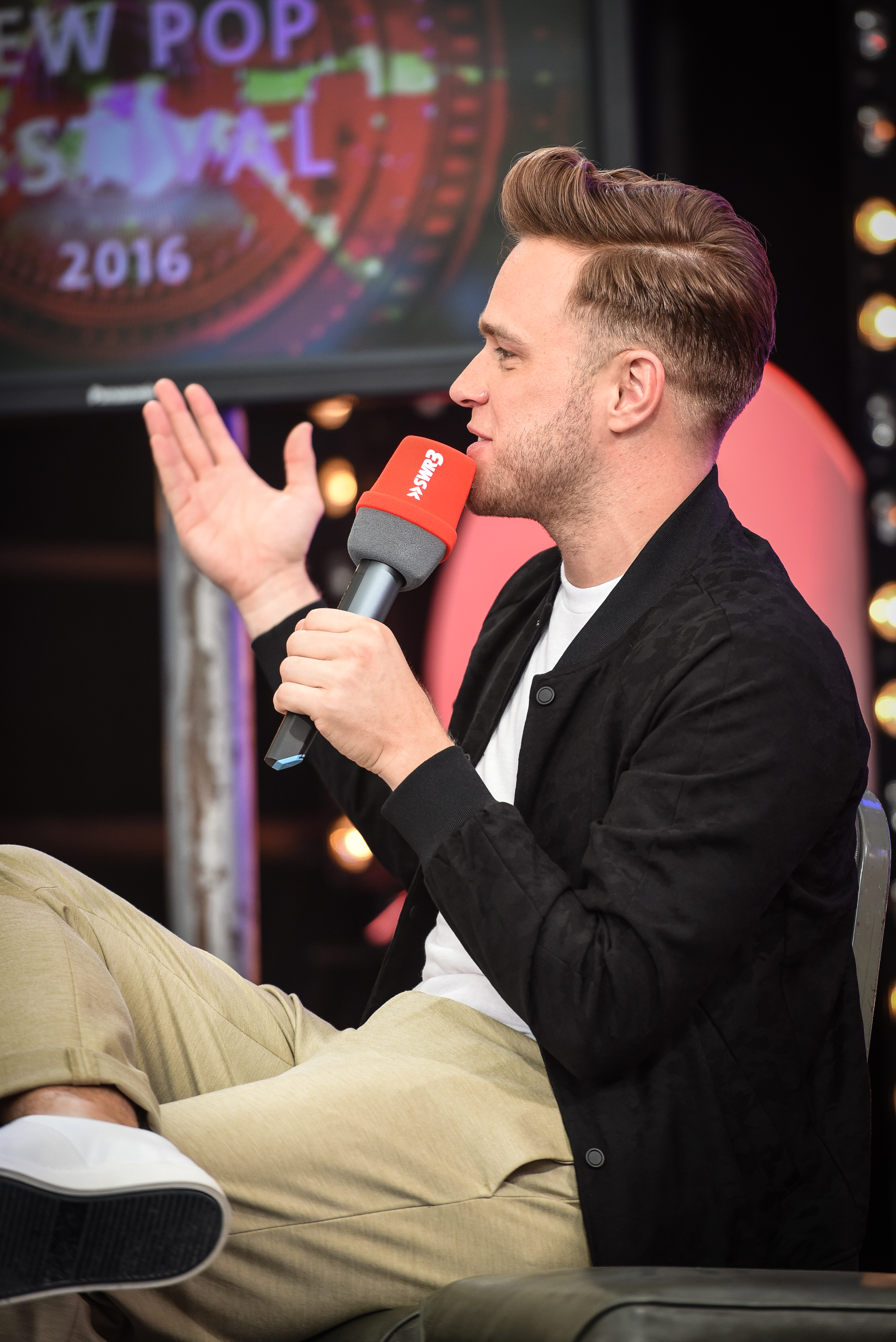 British singer Olly Murs at the SWR3 New Pop Festival 2017